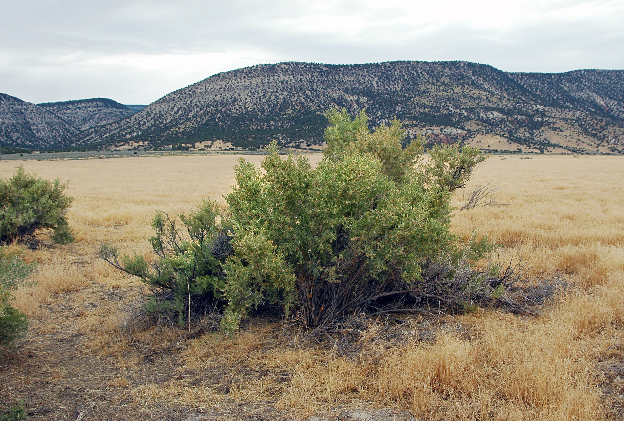 Greasewood shrub (Sarcobatus vermiculatus ) surrounded by cheatgrass in Utah's Sanpete Valley. *The Sanpitch Mountains are in the background - Sanpete County, central Utah.